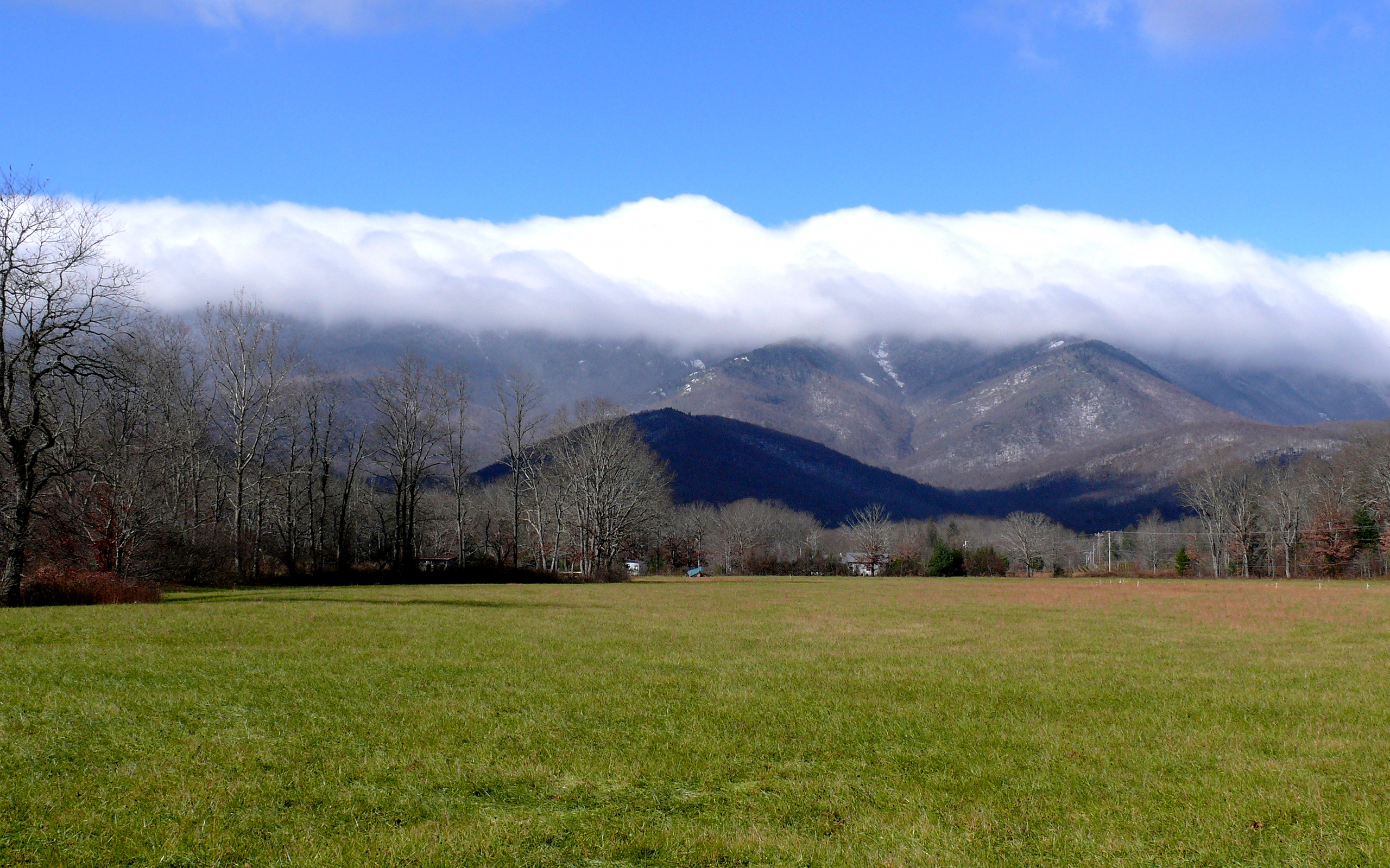 A snowstorm breaks over the crest of the Black Mountain range. Photo taken with a Panasonic Lumix DMC-FZ50 in Yancey County, NC, USA. Cropping and post-processing performed with The GIMP.